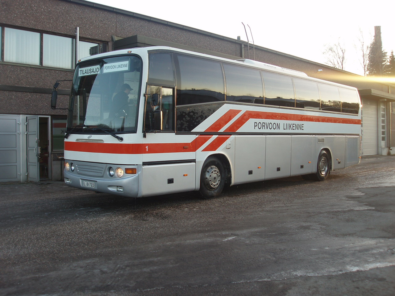 A bus of Porvoon Liikenne Oy (no. 1, LIB-722, Scania K124/Lahti Eagle 560, 1998).